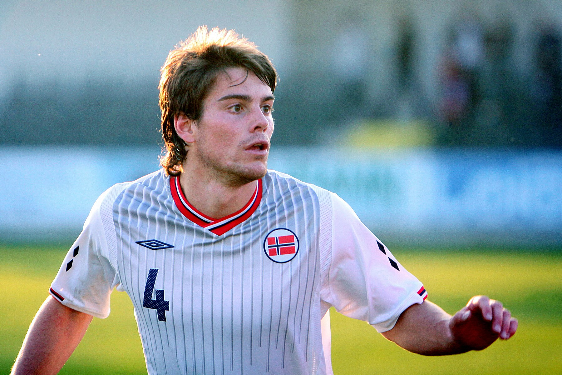 Simen Wangberg (Rosenborg Trondheim) in the Norway national under-21 football team, 2011-03-29